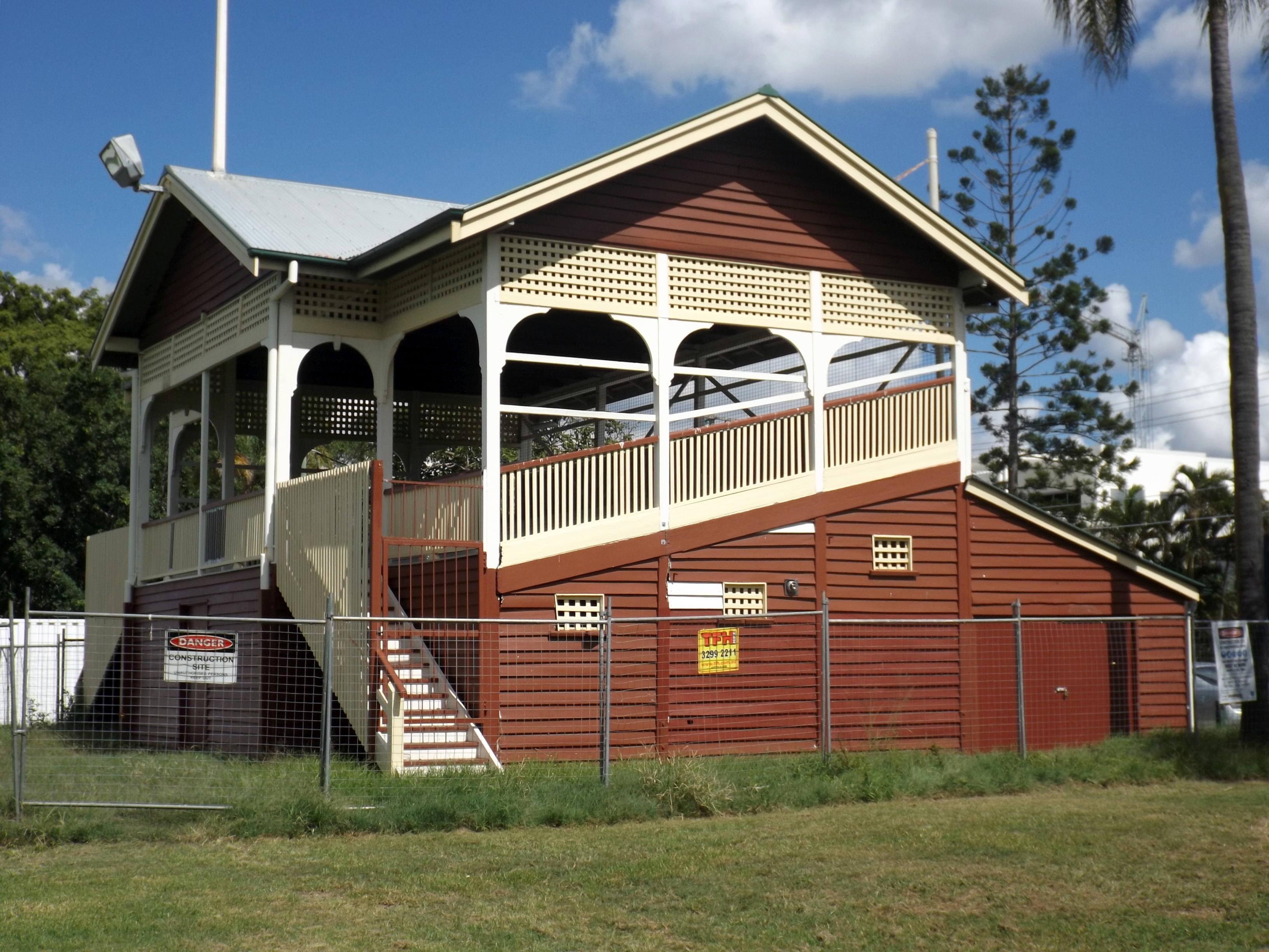 Photo of Bulimba Memorial Park grandstand at Bulimba, Brisbane, Queensland, Australia.